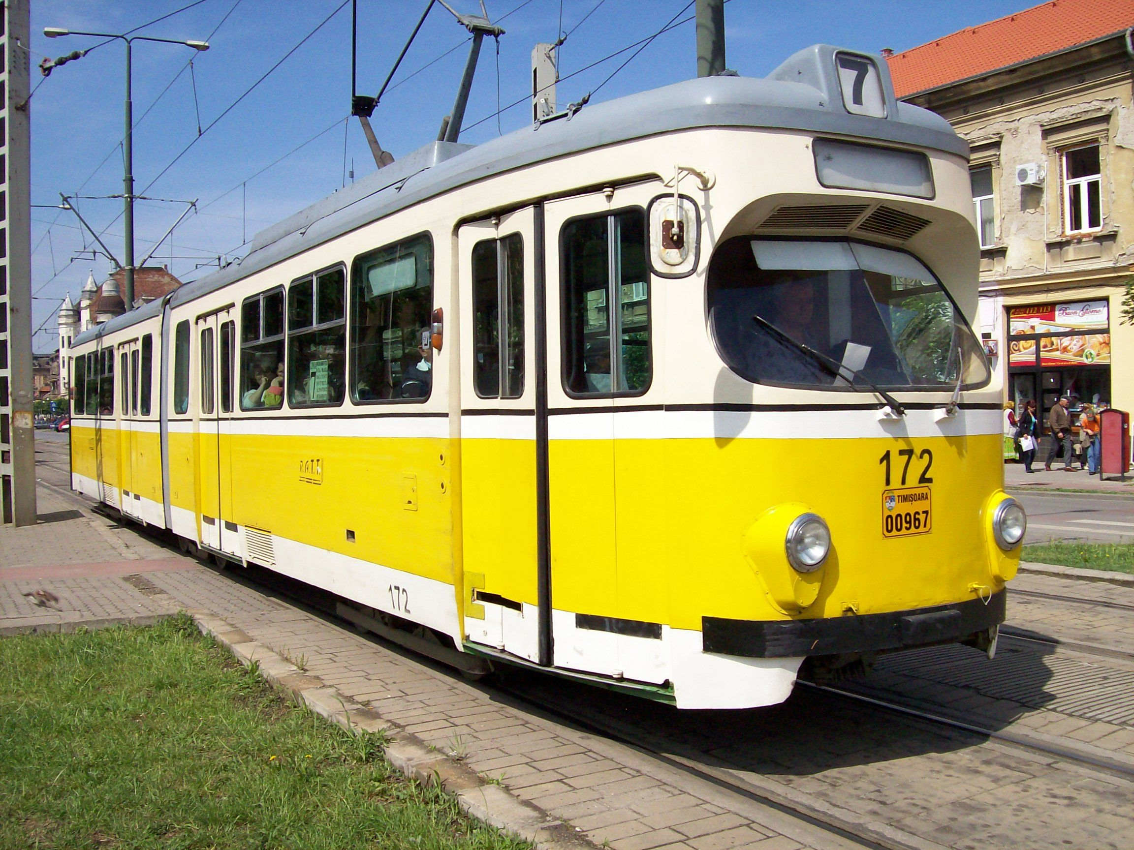 Waggon Union GT6-D 172, tram line 7, Timișoara, 2007